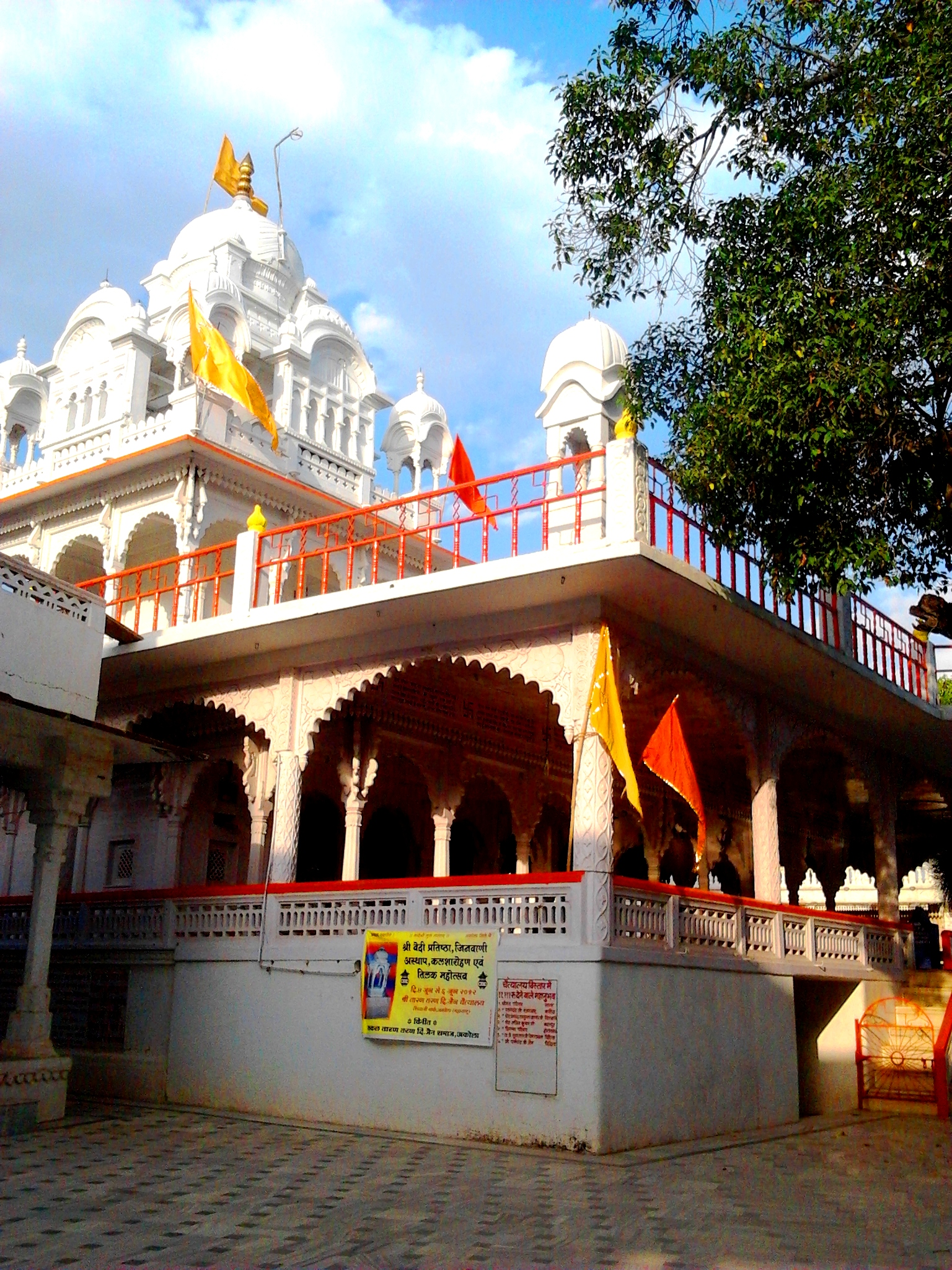 Samadhi of Taaran Swami is located here at Nisai Ji. Near Bina.